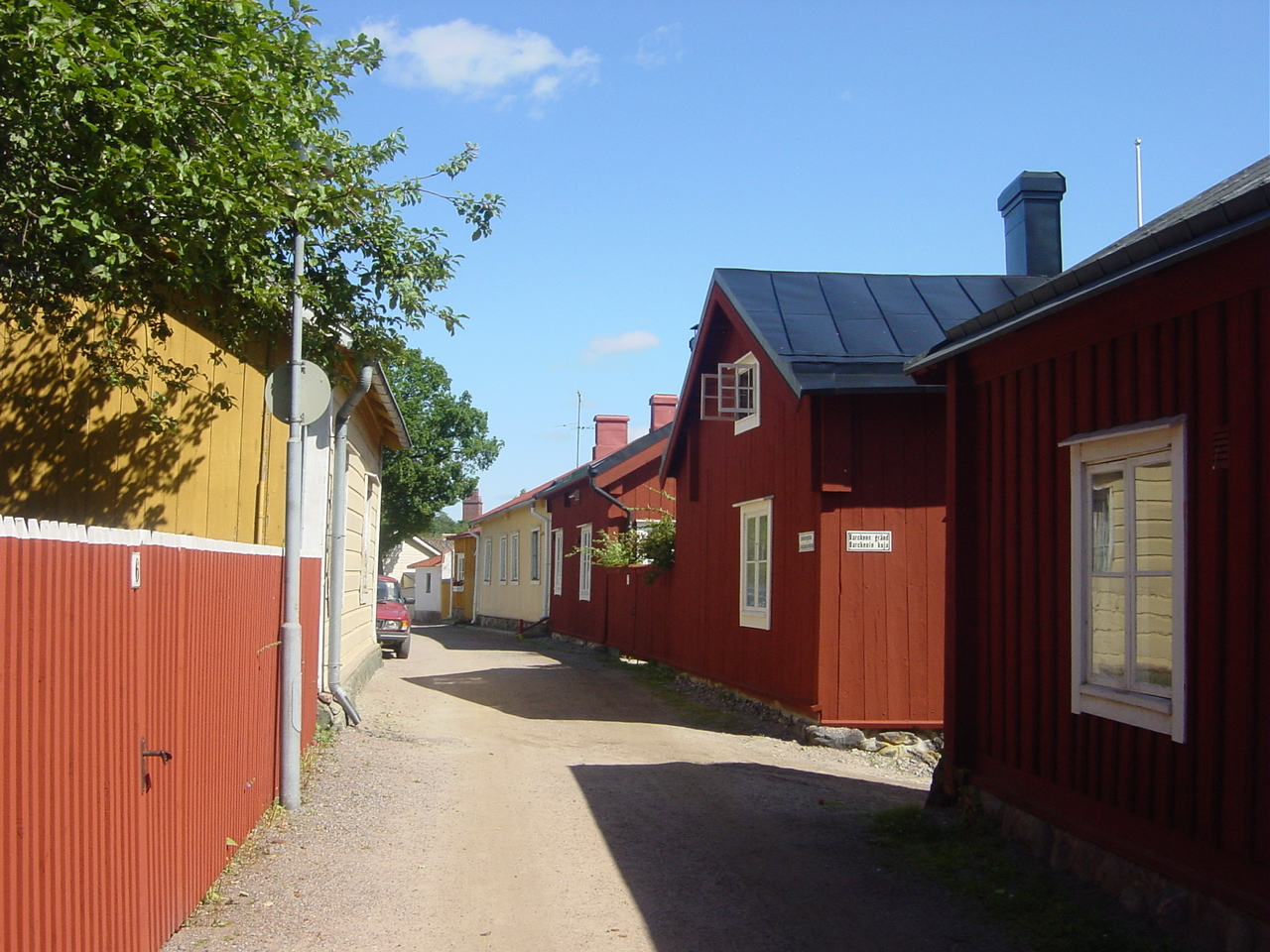 Ole wooden buildings in Ekenäs, Finland